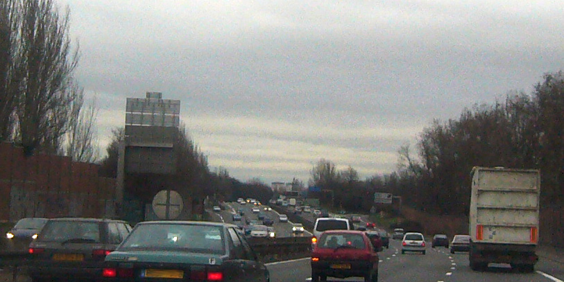 Autoroute A3, sortie n°4 Bondy nord / A3 highway (france), exit nb 4 Bondy north.